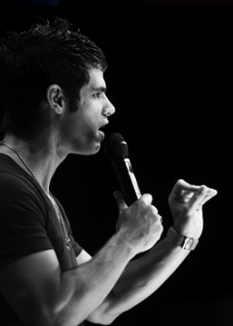 Pastor Steven Furtick, Lead Pastor of Elevation Church in Charlotte, NC, in 2009.